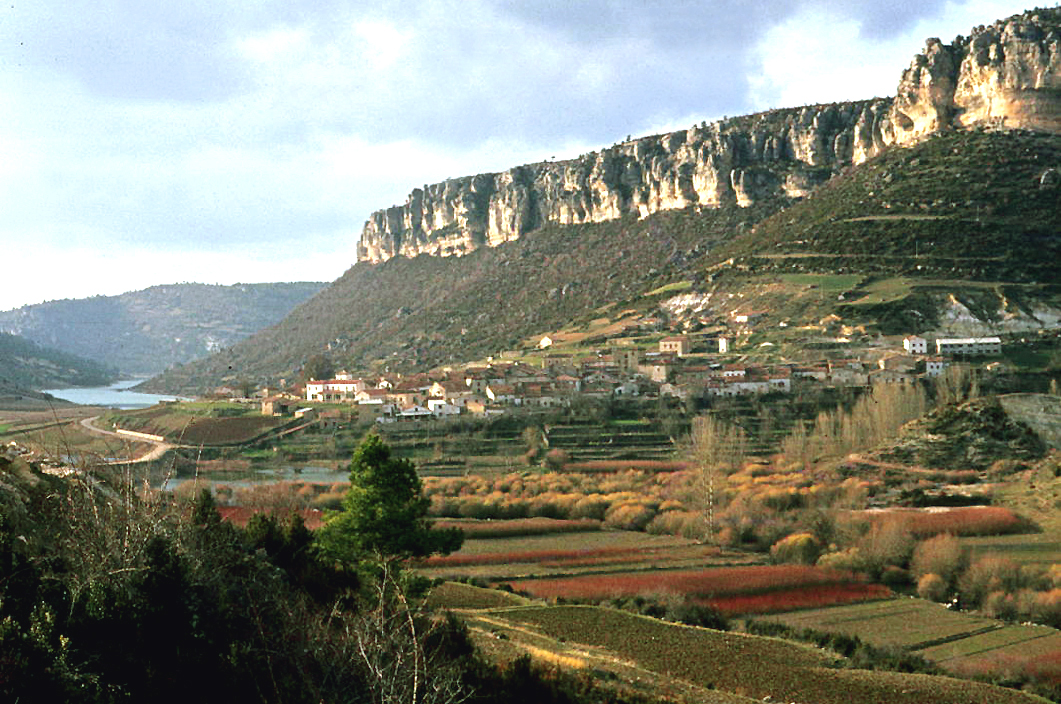 The village and its surroundings. Santa María del Val, Cuenca, Castile-La Mancha, Spain